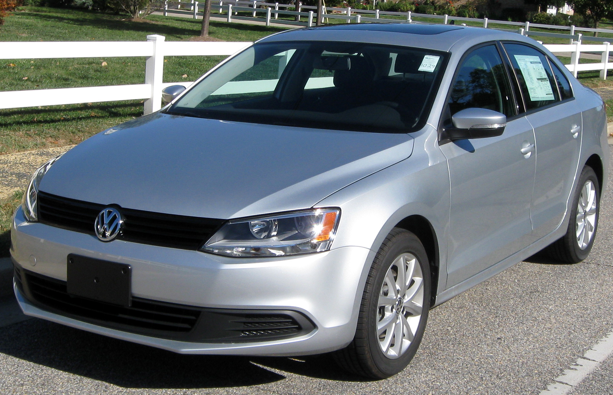 2011 Volkswagen Jetta photographed in Annapolis, Maryland, USA.